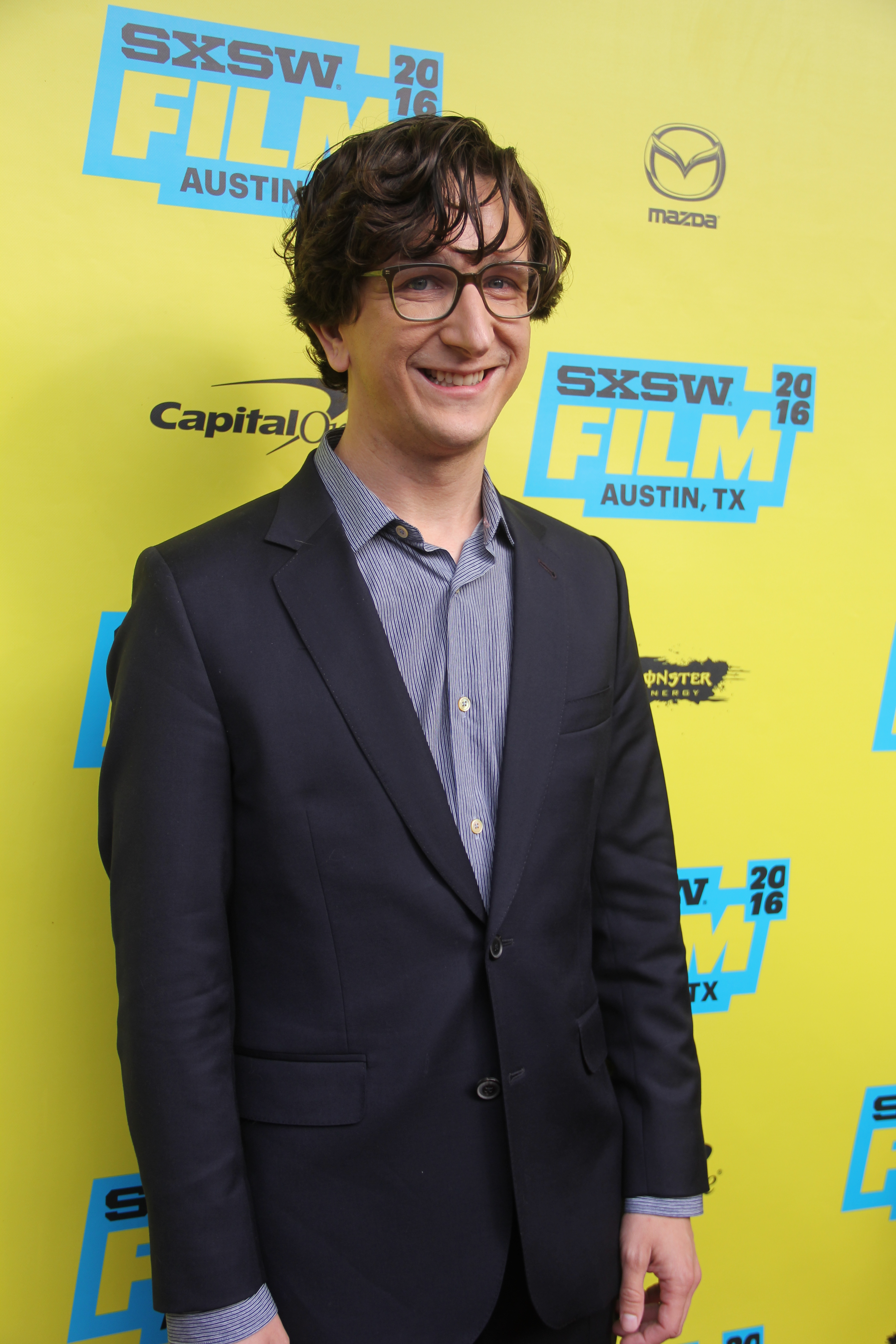 Paul Rust at the premiere of Pee-Wee's Big Holiday Taken at SXSW 2016.